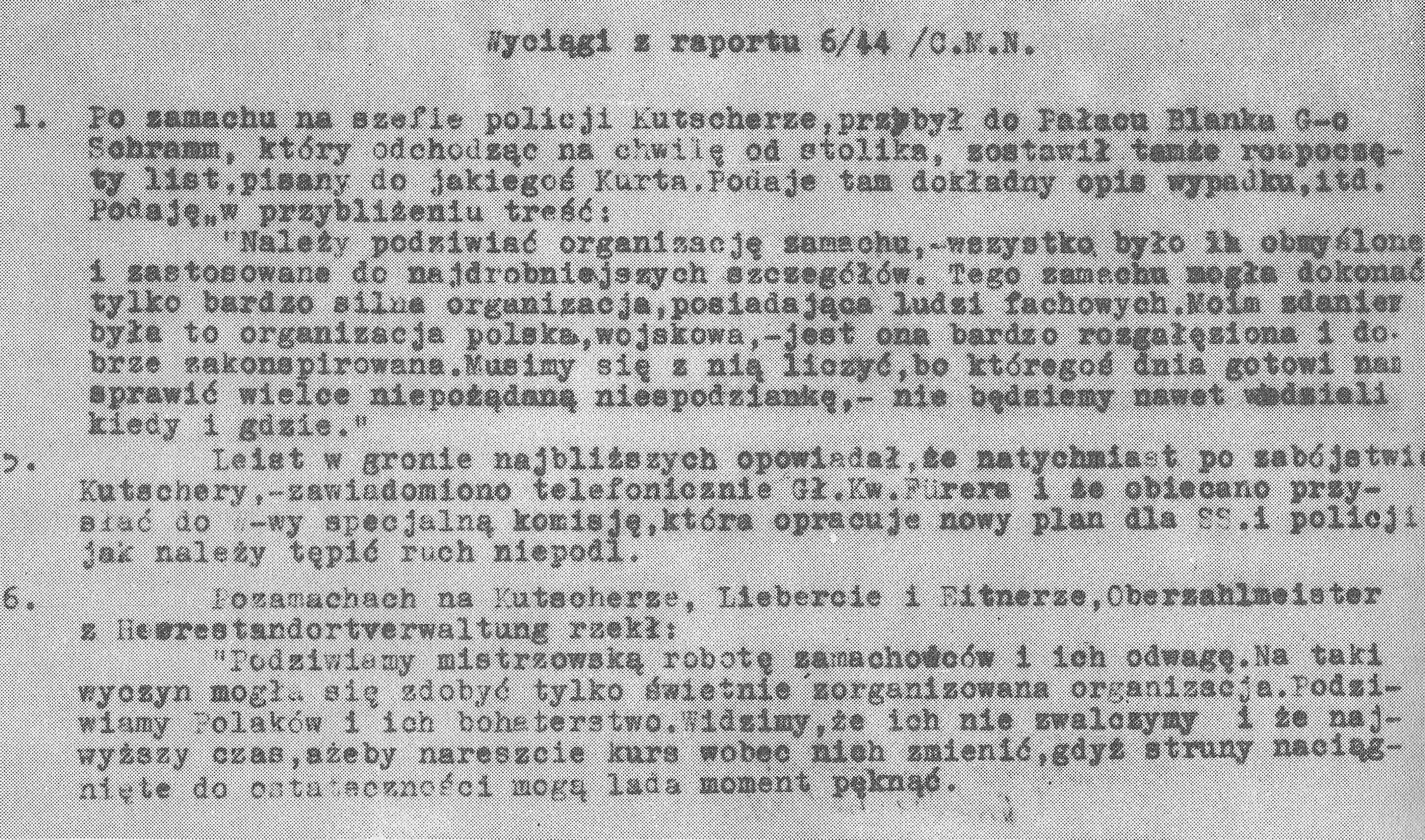 Home Army (AK) report after Operation Kutschera